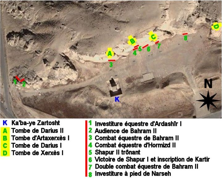 map of archeological site of Naqsh-e Rostam (Iran, fars Province, city of Marvdasht)